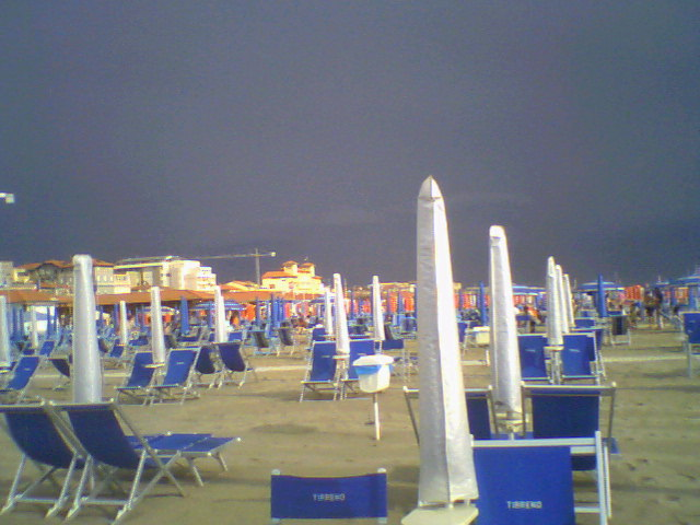 Viareggio beach in a dark day, Italy